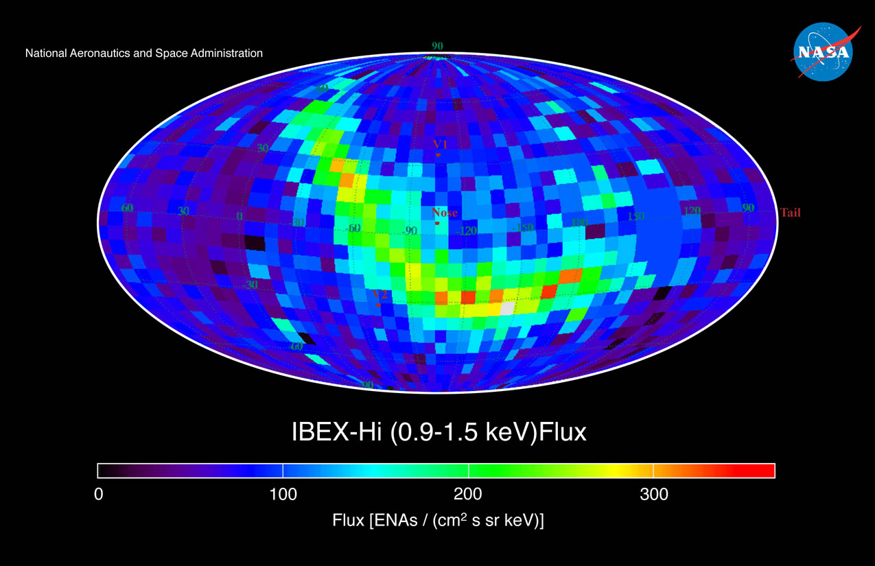 NASA's Interstellar Boundary Explorer (IBEX) map of the heliosphere, produced with data from the IBEX-Hi instrument operating at 0.9-1.5 keV.